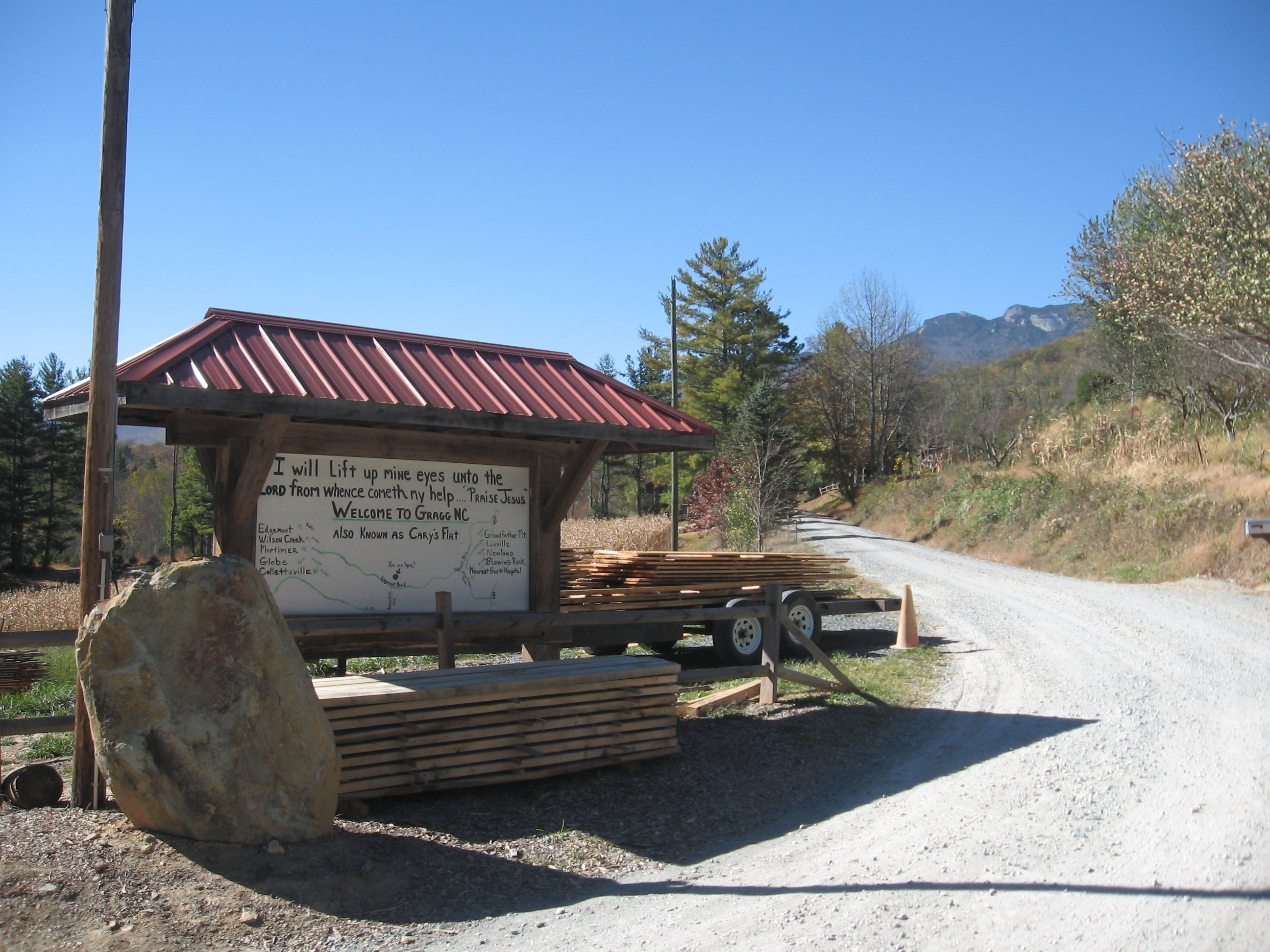 Gragg, NC (with Grandfather Mountain in the background)